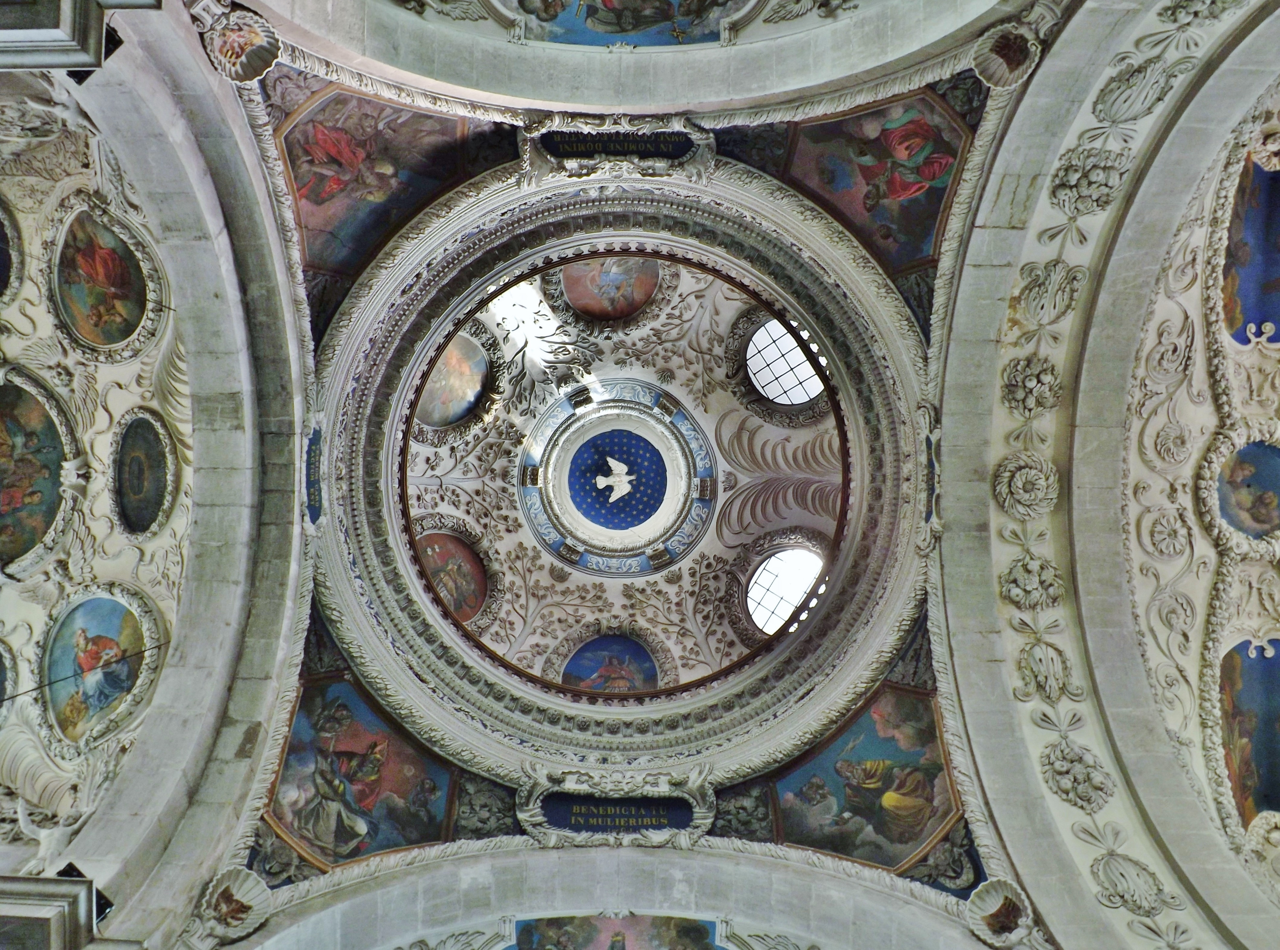 Sight inside dome of Notre-Dame de Chambéry church, in Chambéry, Savoie, France.